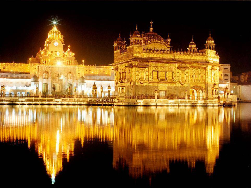 Harmandir Sahib (also Hari Mandir, Harimandar and other variants) (Punjabi: ਹਰਿਮੰਦਰ ਸਾਹਿਬ) is the most sacred gurdwara in all of Sikhism, located in Amritsar, Punjab, India. It was previously known as the Golden Temple, but was renamed in March 2005 by the SGPC. The temple is the most important sacred shrine for the Sikhs, who travel from all parts of the world to enjoy the blissful environments and offer their thanks by giving prayers. In addition, the sacred shrine is increasingly becoming a tourist attraction for visitors from all over the world. The Temple is located at 31°37′12″N, 74°52′37″E.